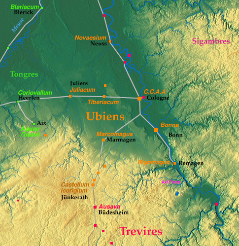 Cologne IIIe siècle roman empire, Ubian Tribe